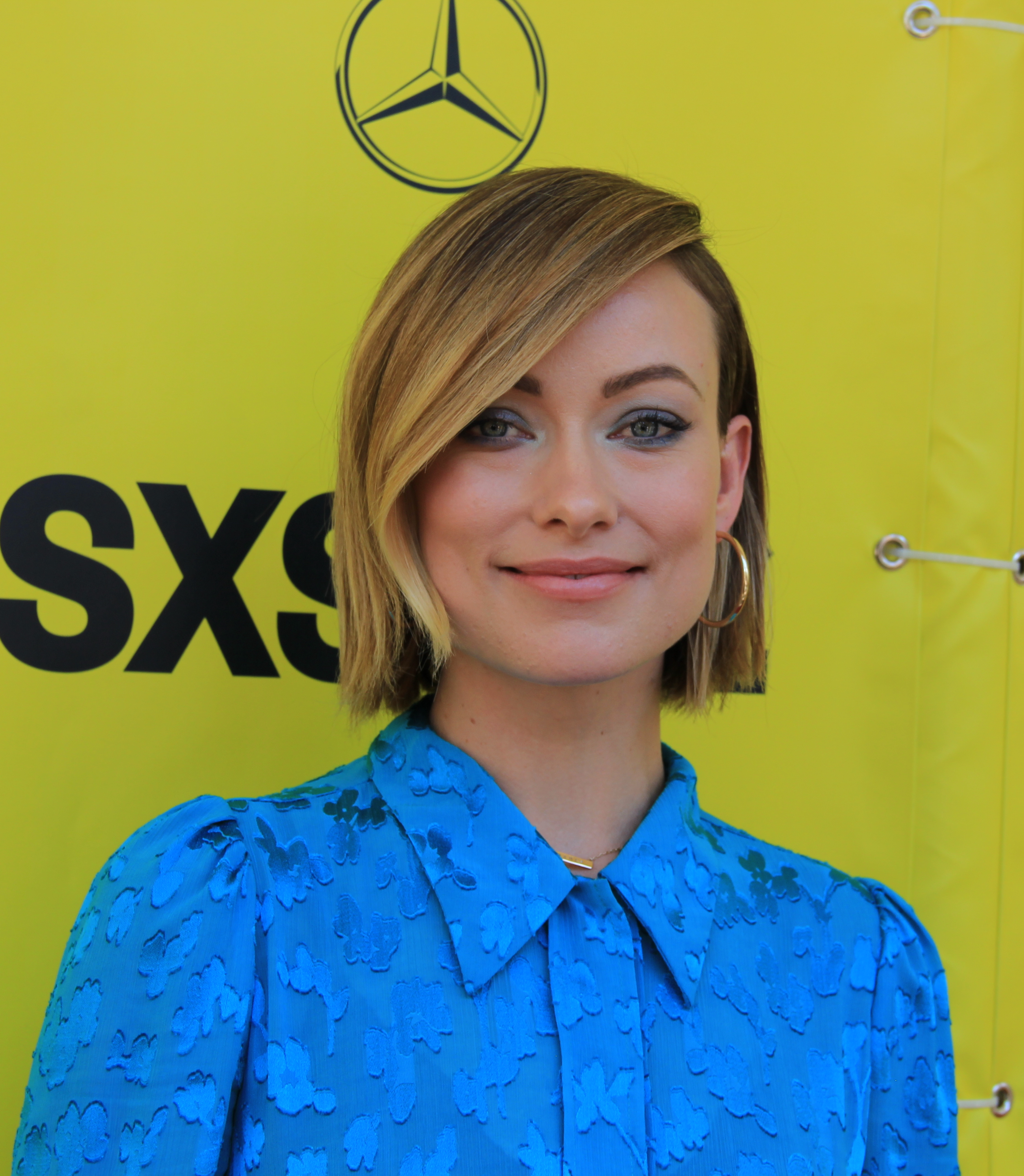 Olivia Wilde at the Red Carpet Premiere of A Vigilante during SXSW 2018